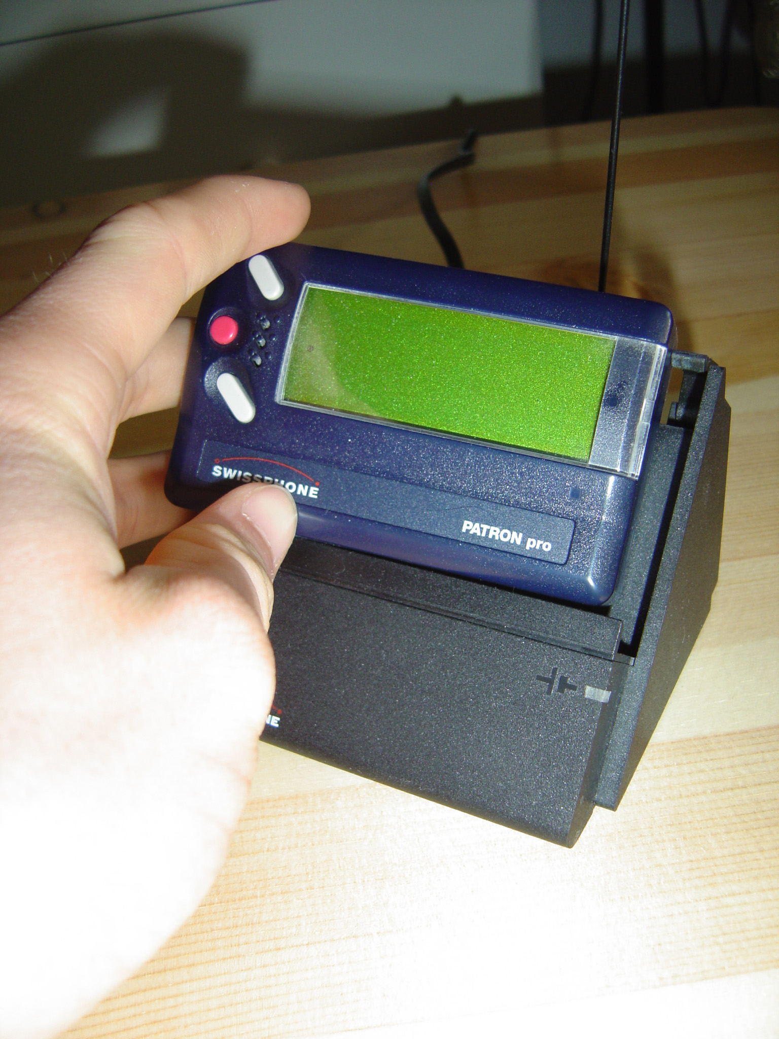 Pagers like the Swissphone Patron pro are in use in some towns for the purpose of alarming fire brigade units / EMS teams / etc. Those pagers are able to receive text messages via radio transmission and show them on their display. Simultaneously, an alarm sound is activated when a message comes in.